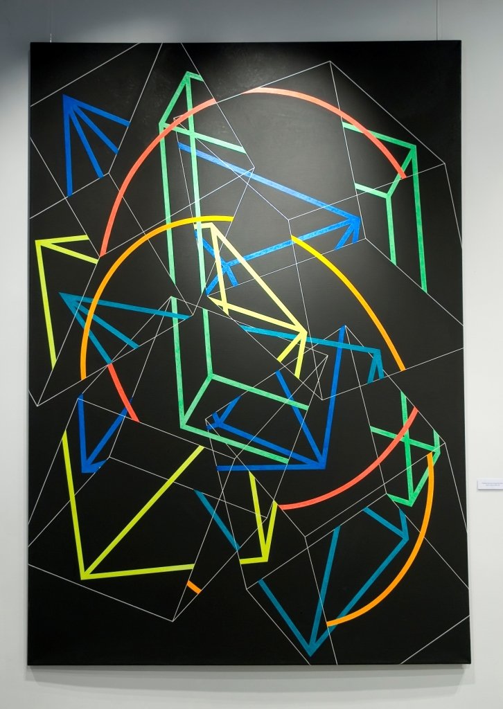 Geometry III.